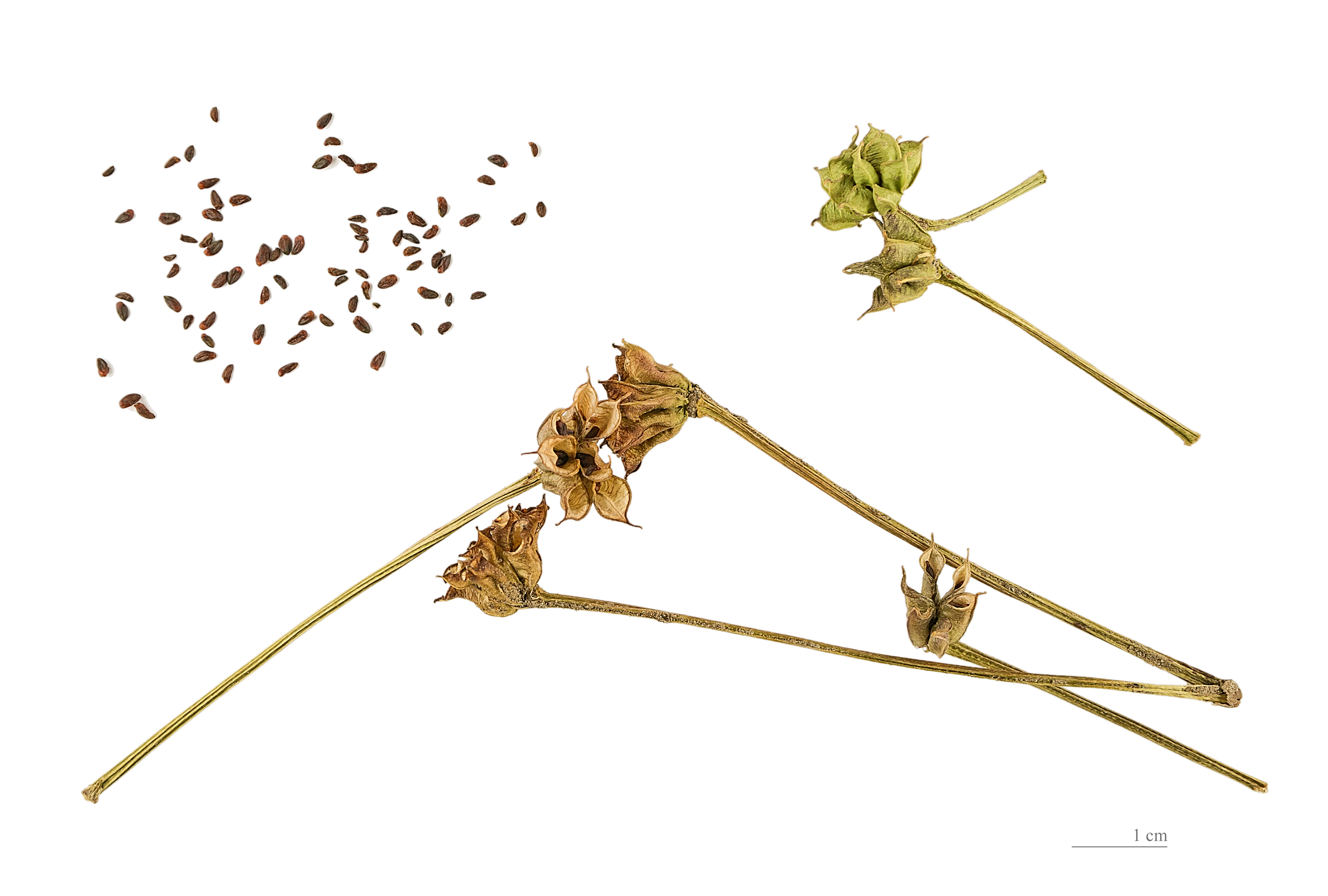 Marsh Marigold, mature fruits and seeds